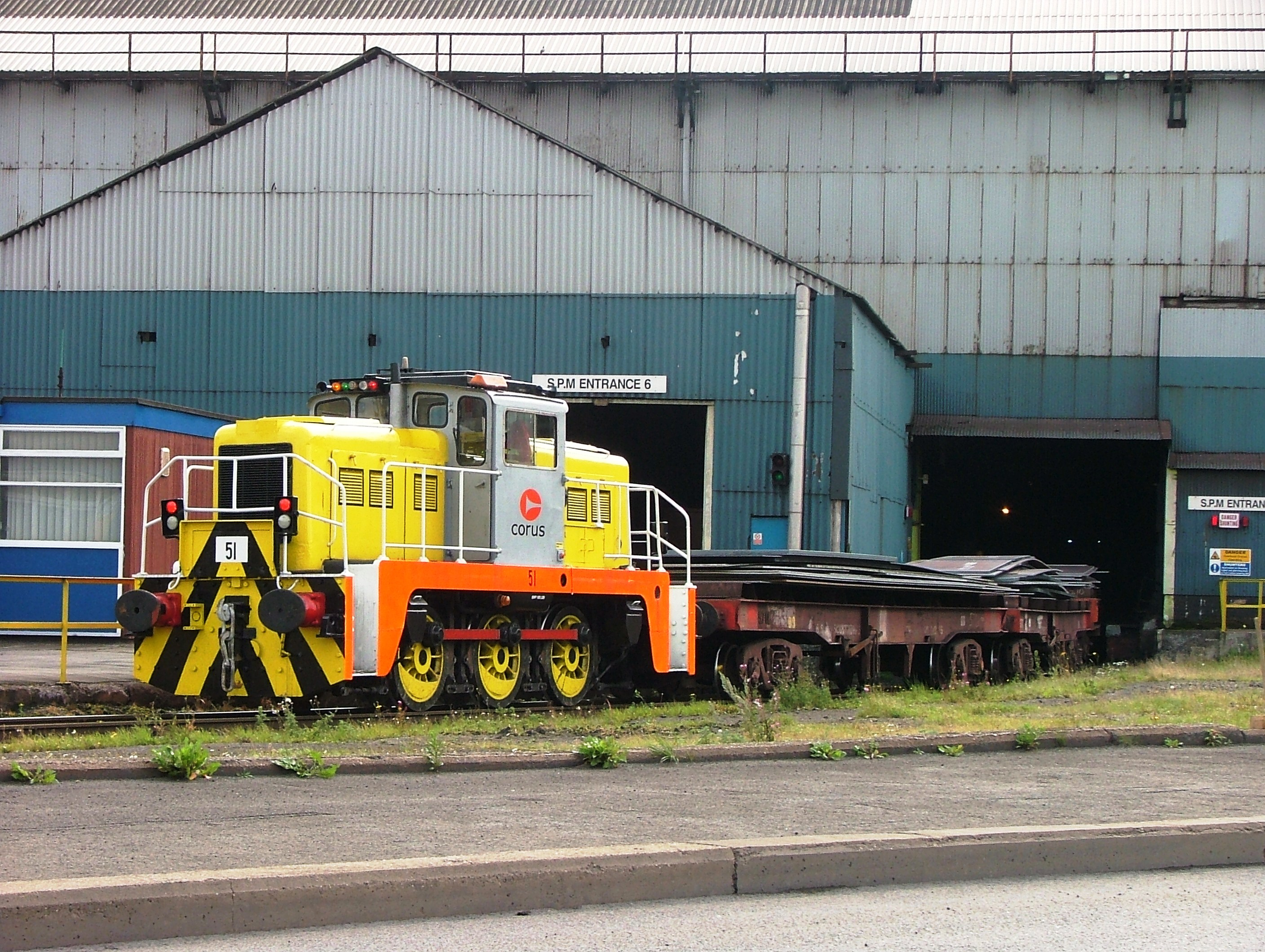 A Yorkshire Engine Company 'Janus' diesel locomotive shunting at Corus' Scunthorpe site.